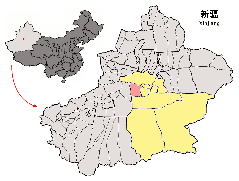 Location of Luntai County (pink) and Bayin'gholin Prefecture (yellow) within Xinjiang autonomous region of China Map drawn in september 2007 using various sources, mainly : Xinjiang Uygur autonomous region administrative regions GIS data: 1:1M, County level, 1990 Xinjiang Counties map from